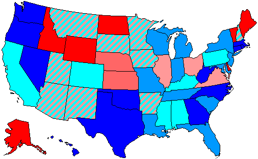 Summary of party control of U.S. house seats in the 96th United States Congress following the 1978 election. Stripes indicate a tie between two or more parties. Legend: 80.1-100% Democratic seat majority 60.1-80% Democratic seat majority 60% or less Democratic seat plurality 60% or less Republican seat plurality 60.1-80% Republican seat majority 80.1-100% Republican seat majority